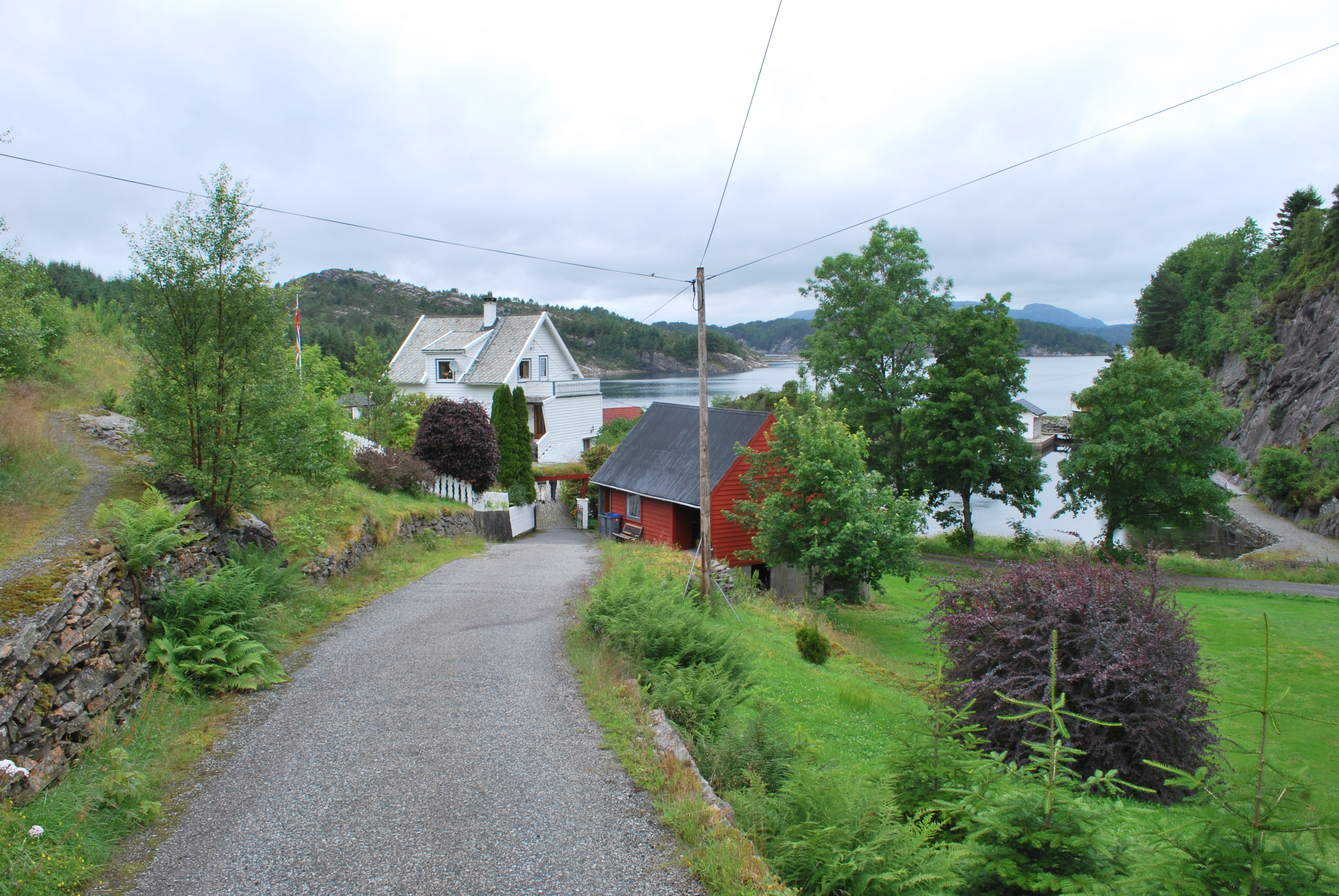 Nordre Haugland, Askøy nortwest of Bergen